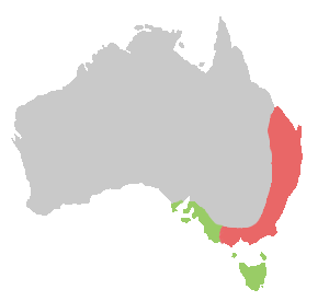 Distribution map of the Yellow-tailed Black Cockatoo (Calyptorhynchus funereus) showing range of the two recognised subspecies: C. (Z.) f. xanthanotus in green and C. (Z.) f. funereus in red.[1] ↑ Forshaw, Joseph. M; Illustrated by Frank Knight (2006) Parrots of the World; an identification guide, Princeton University Press, plate 1 ISBN: 0691092516. .